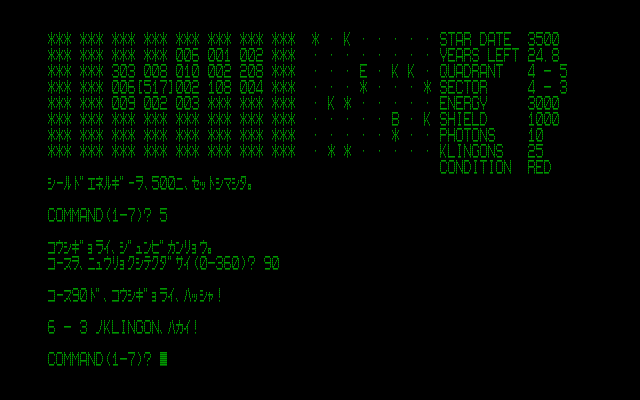 A made-up screenshot of Japanese version of Star Trek Text Game. For 80x25 characters screen.